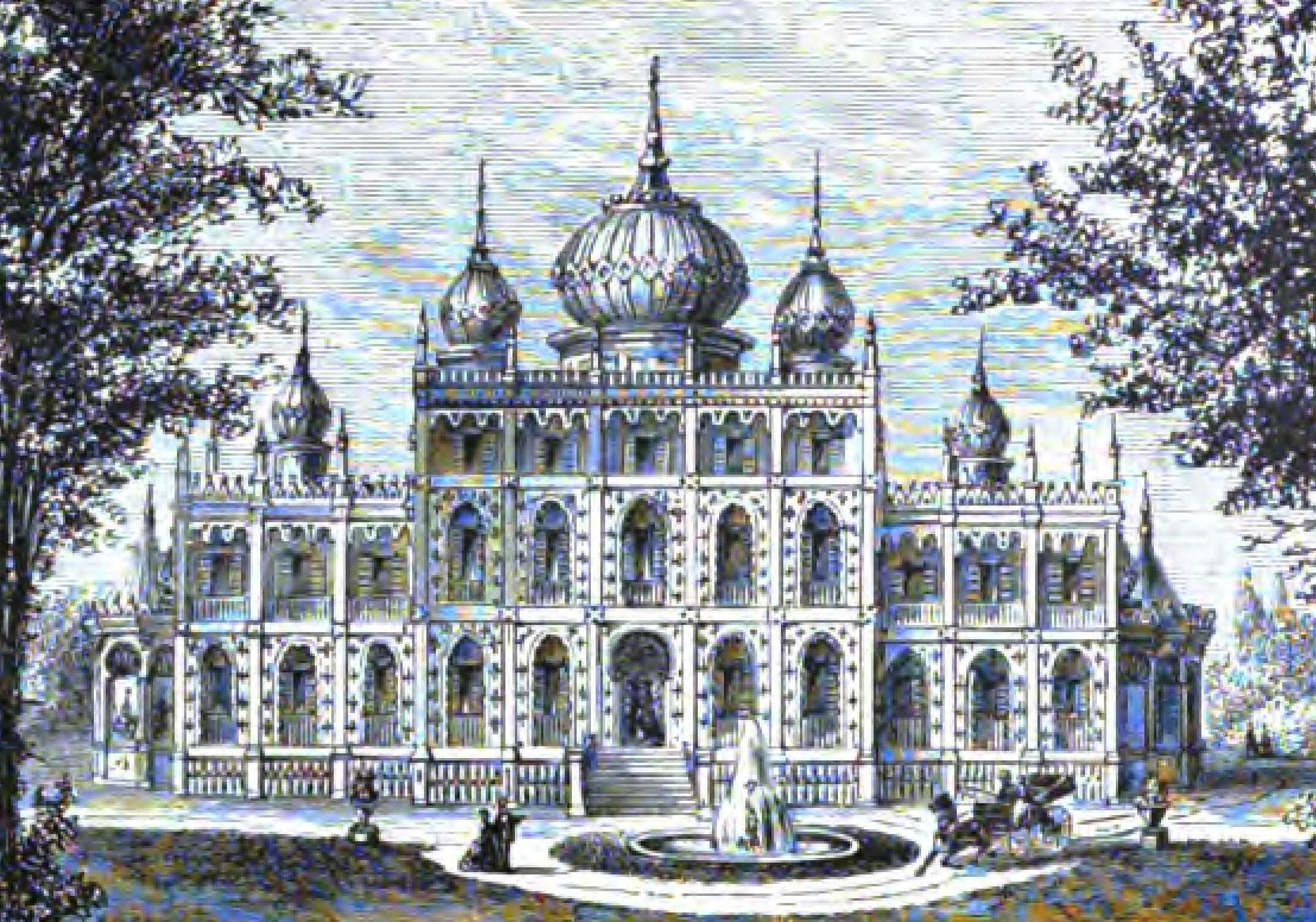 Book engraving of Iranistan, P.T. Barnum's residence in Bridgeport, Connecticut in 1848